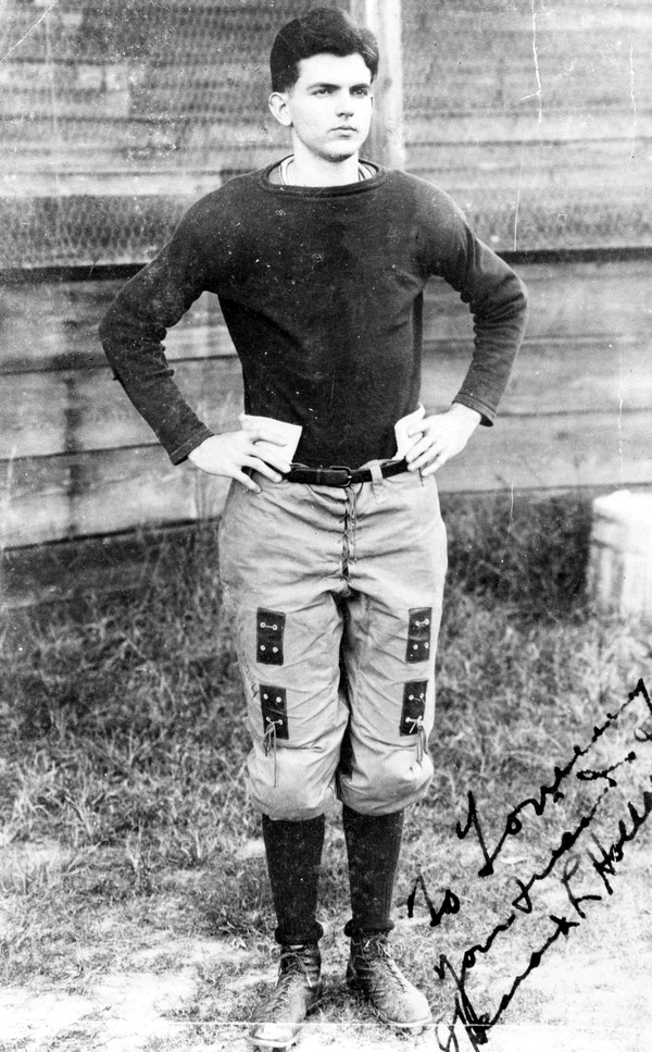 Local call number: PT00214 Title: Spessard Holland, student and football player at Emory University: Atlanta, Georgia Date: 1912 General note: Spessard Holland was born in Bartow, Florida on July 10, 1892. He served in World War I, graduated from Emory College in Atlanta (now Emory University) and attended law school at the University of Florida in Gainesville. Holland was elected to the Florida Senate in 1932, and became Governor of Florida in 1941. He served in the United States Senate from 1946 until his retirement in 1971. Physical descrip: 1 photoprint - b&w - 24 x 18 mm. Series Title: Political collection Repository: State Library and Archives of Florida, 500 S. Bronough St., Tallahassee, FL 32399-0250 USA. Contact: 850.245.6700. Persistent URL: Visit Florida Memory to learn more about Spessard Holland during his tenure as Governor of Florida. Visit Florida Memory to learn more about the history of college football in Florida.